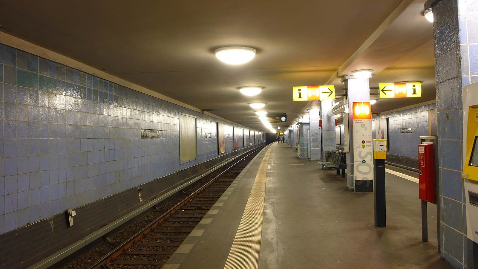 Weinmeisterstr subway